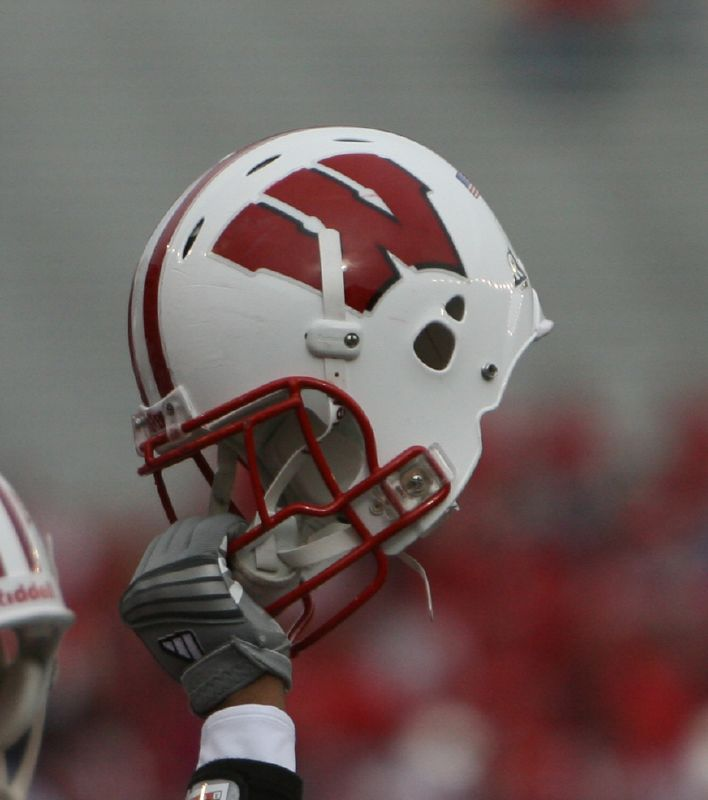 A Wisconsin football player holds up a helmet during a football game. Taken by coach_connor2001 at Flickr.